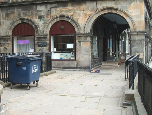 Victoria Terrace Victoria Terrace immediately above Victoria Street. Looking towards the east end of the terrace. The Quaker Meeting House's main entrance is first door, through the archway. Two of their matching windows face out towards you.